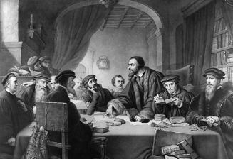 Meeting of the Genevan Consistory